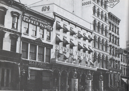 Olympic Theatre — 622 Broadway, New York City; managed by George L. Fox in 1866 More information